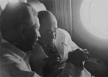 Japanese Prime Minister Shigeru Yoshida (1878–1967, in office 1946–47 and 1948–54) en route to San Francisco Peace Conference, with his aide Jirō Shirasu at left.